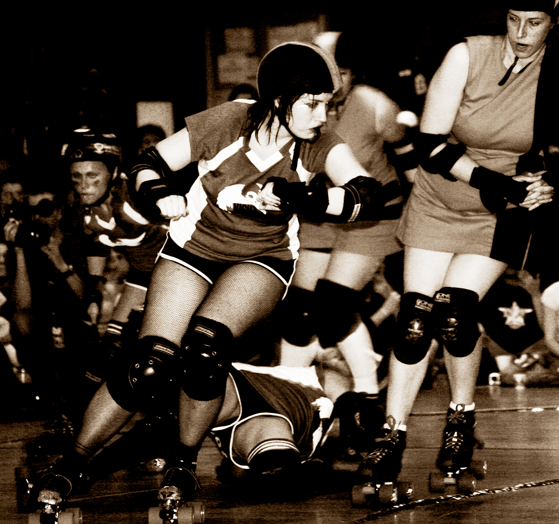 these teams were all phenominal to watch the other night at the first bout - can't wait to see more!